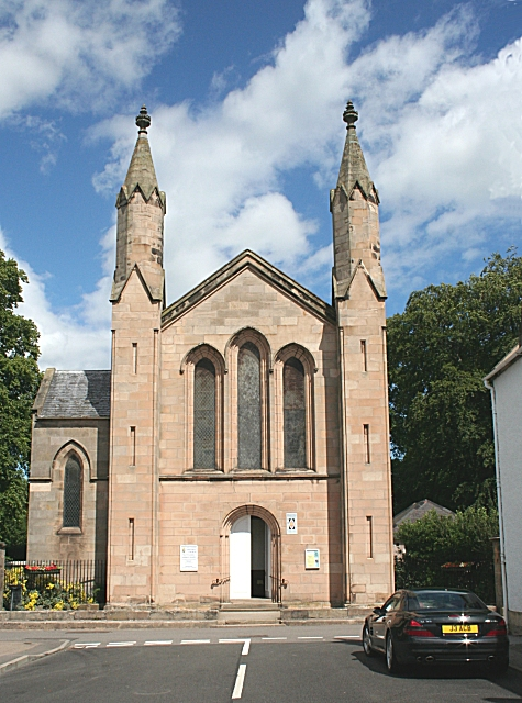 Gordon Chapel. This is the Episcopal church in Fochabers. It stands at one end of Duke Street, facing the facade of the Church of Scotland's Bellie Parish Kirk on the far side of the Square.